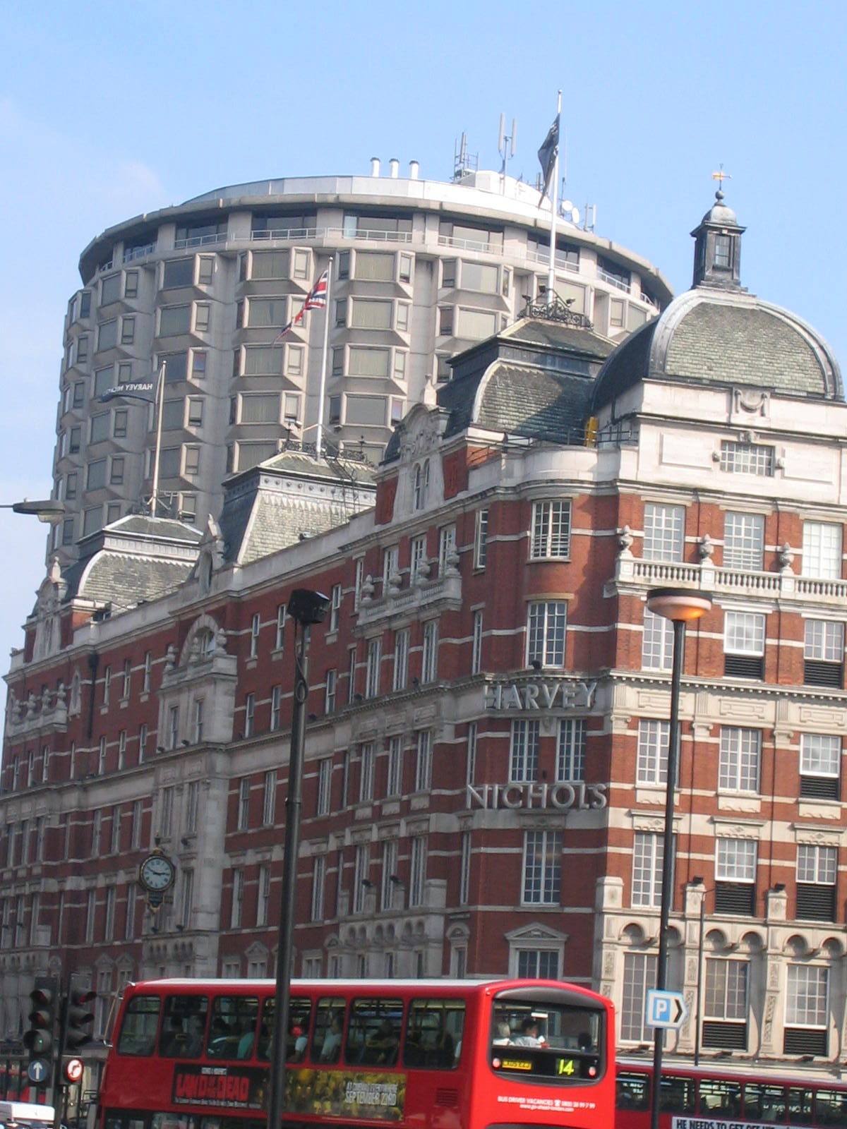 Harvey Nichols